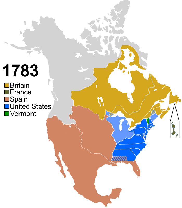 Non Native Political Evolution of North America